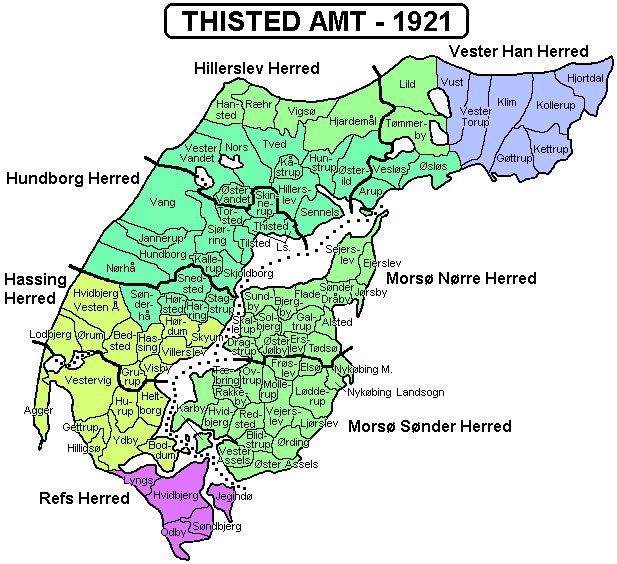 Thisted Amt - kortet er udarbejdet af Svend-Erik Christiansen. Farvelagt af Twid - med grønne nuancer er indtegnet kommuner, der efter Kommunalreformen i 1970 gik til Viborg Amt, med lilla et område, der blev til en kommune i Ringkjøbing Amt, og med blåt et område, der gik til Nordjyllands Amt. Map of Thisted County, Denmark (-1970). Map by Svend-Erik Christiansen. Colours by Twid. The green colours show parts of the province that became part of Viborg County in 1970, the purple region became part of Ringkjøbing County and the blue region was transferred to North Jutland County in 1970. Copied from the Danish Wikipedia.